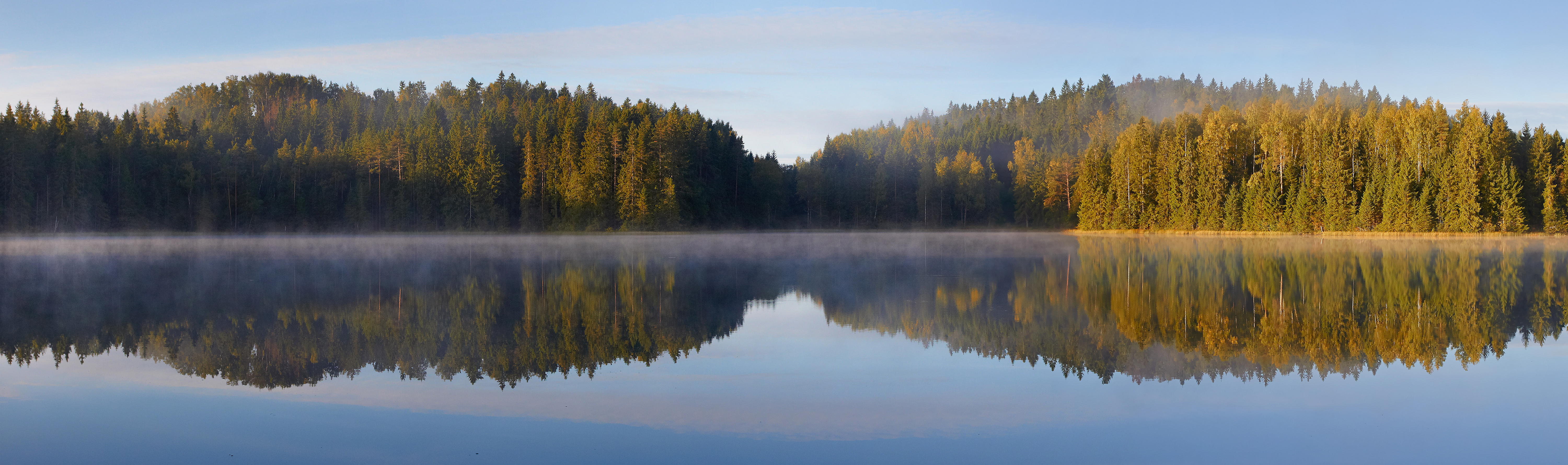 Lake Väikjärv Võru County, Estonia.